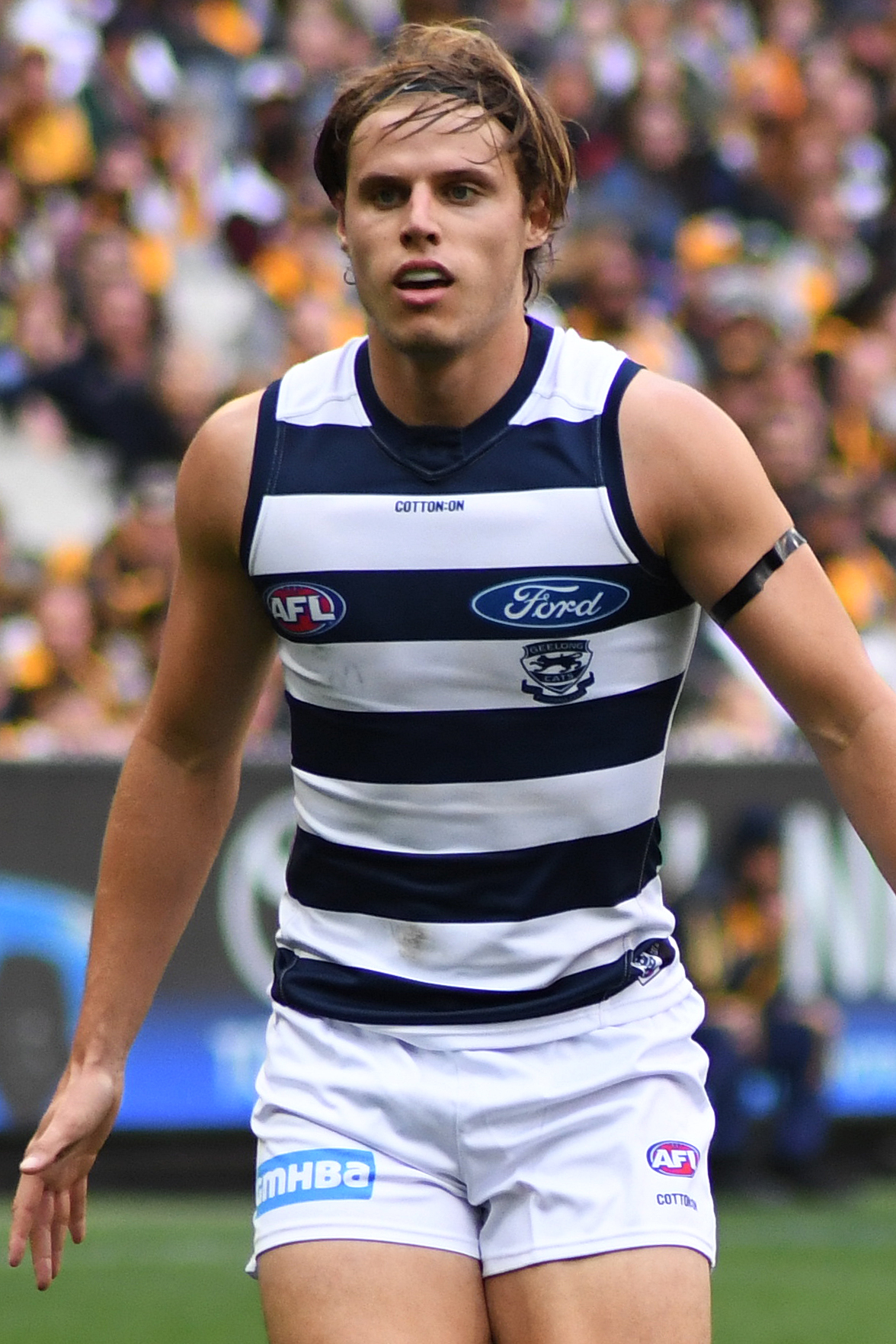 Jake Kolodjashnij of Geelong during the 2019 AFL round 5 match between Hawthorn and Geelong at the Melbourne Cricket Ground on Monday, 22 April 2019 in Melbourne, Victoria.